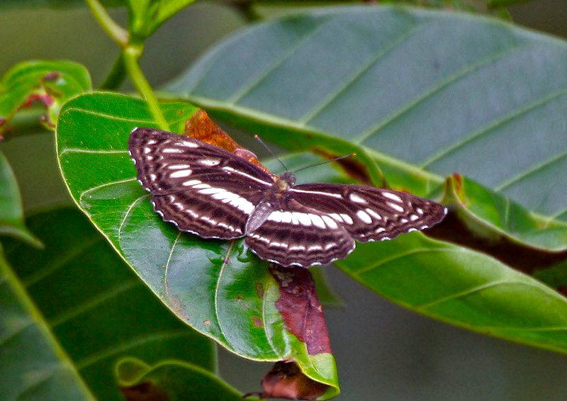 Short-banded Sailer Neptis columella in Kolkata, West Bengal, India.